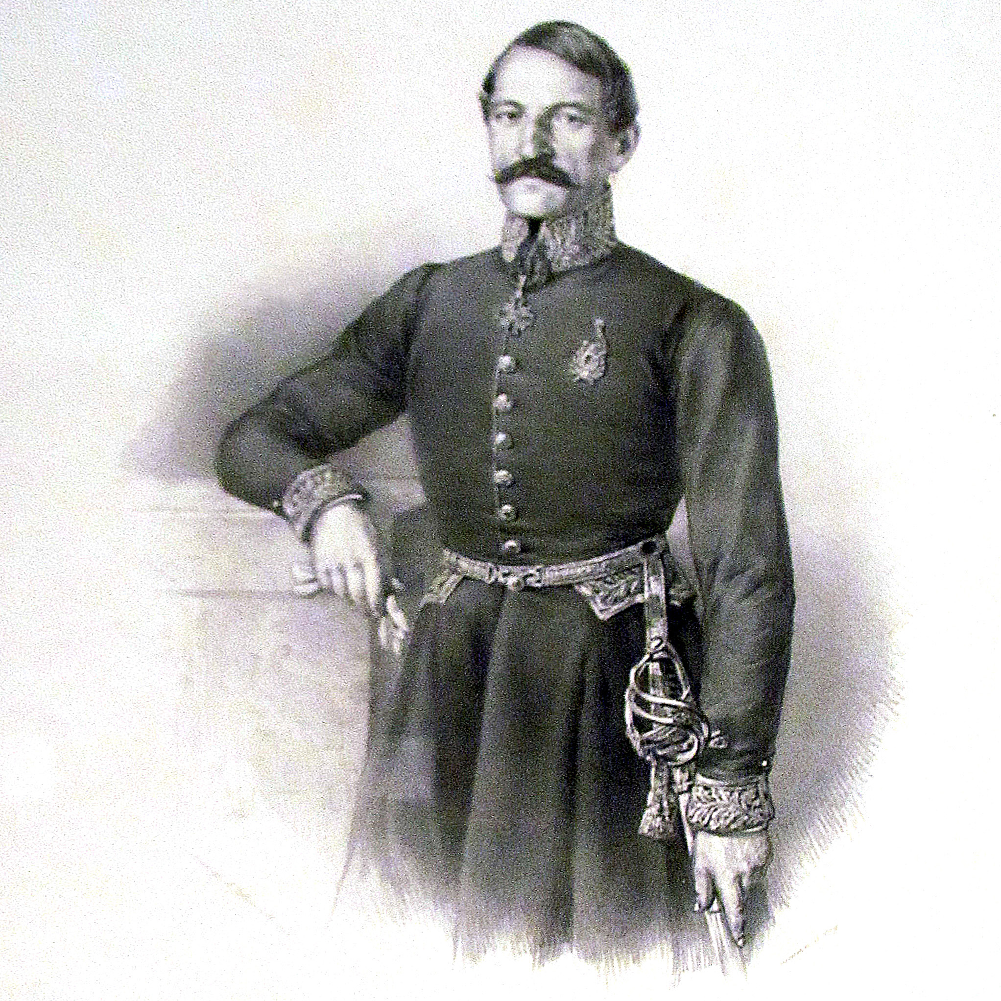 Anastas Jovanović, Ilija Garašanin, 1852, lithograph, National Museum of Serbia